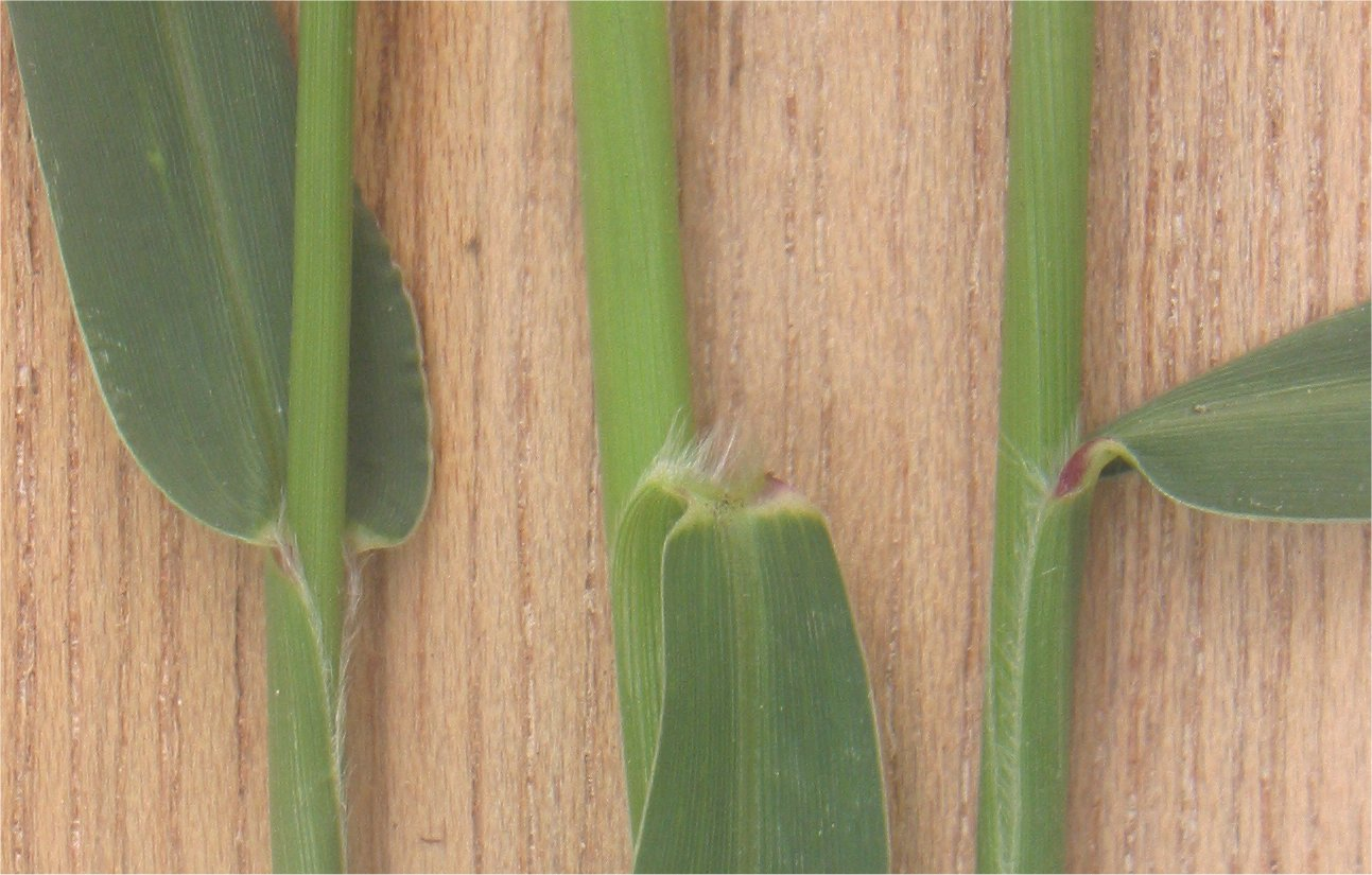 Setaria viridis ligula